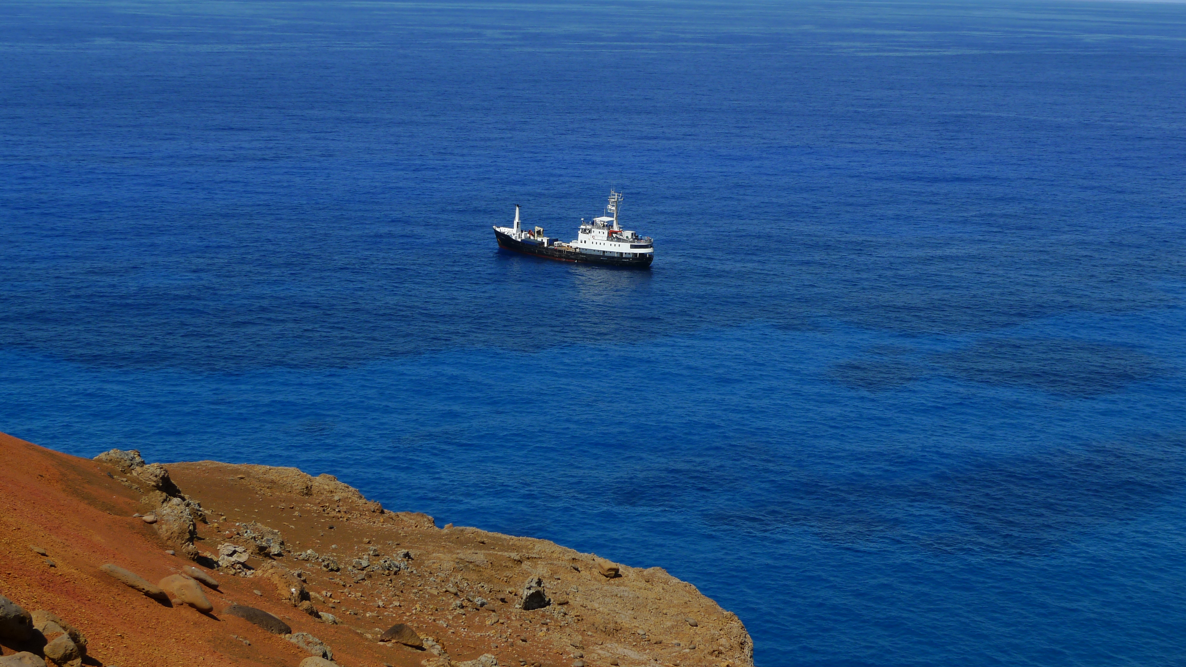 the supply ship "Claymore II" at anchor